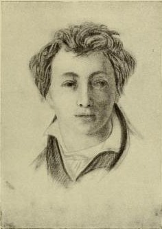 Portrait of Heinrich Heine, German romantic poet.